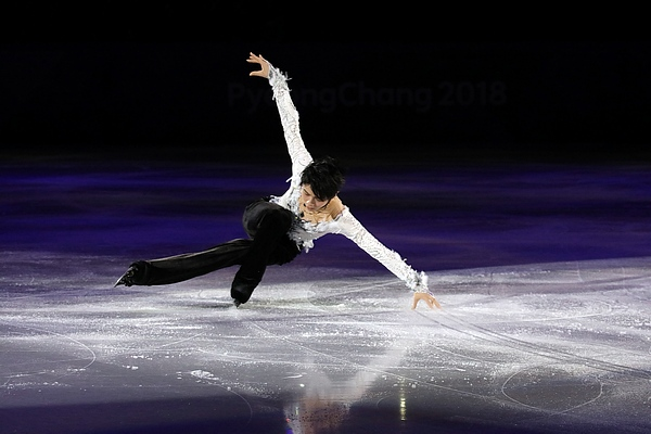 Gala exhibition at the 2018 Winter Olympics